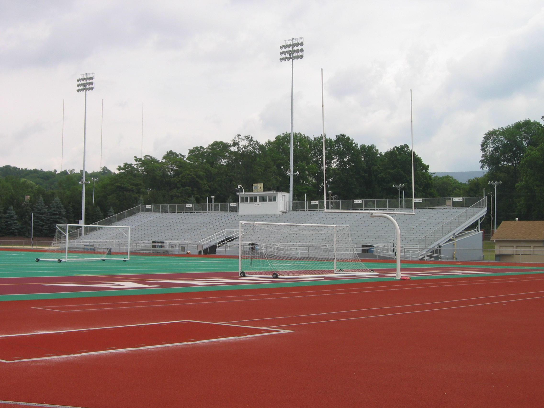 Football & Basketball Facilities Altoona HS Stadium